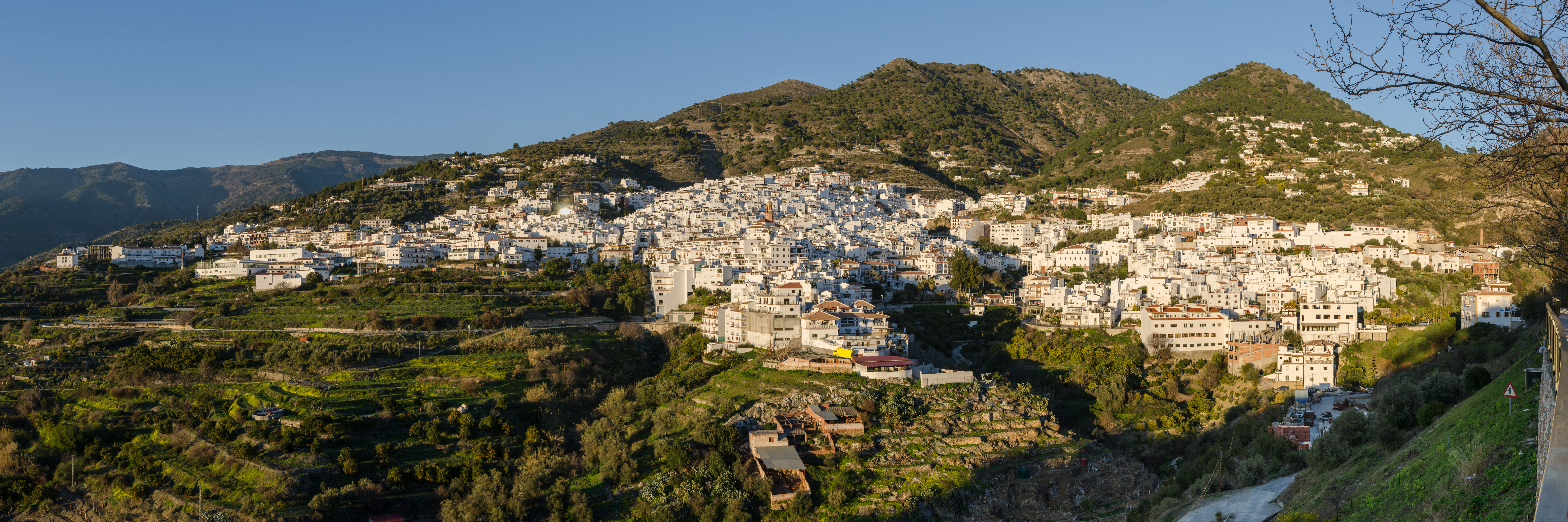 Cómpeta - panoramic view at golden hour shortly before sunset.